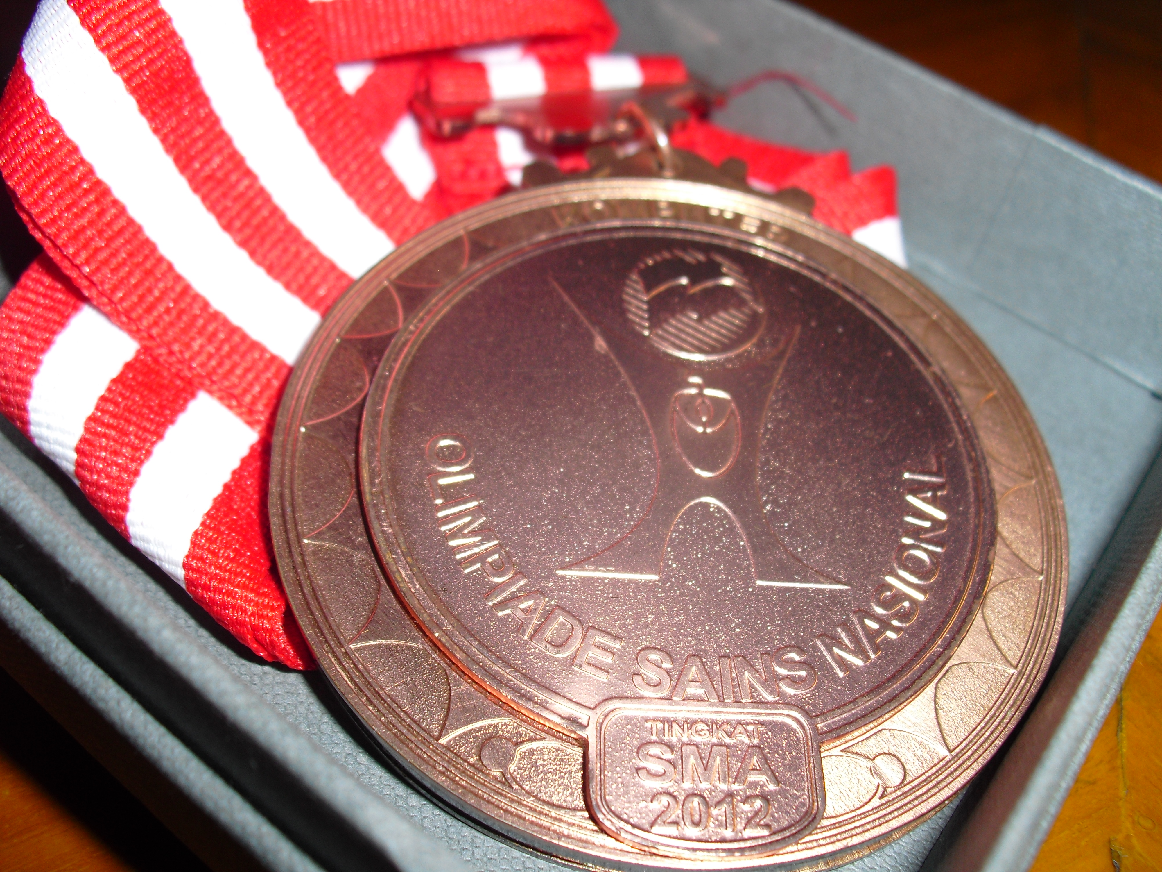 A bronze medal in Informatics/ Computer from the XI National Science Olympiad 2012 held at Jakarta, Indonesia.